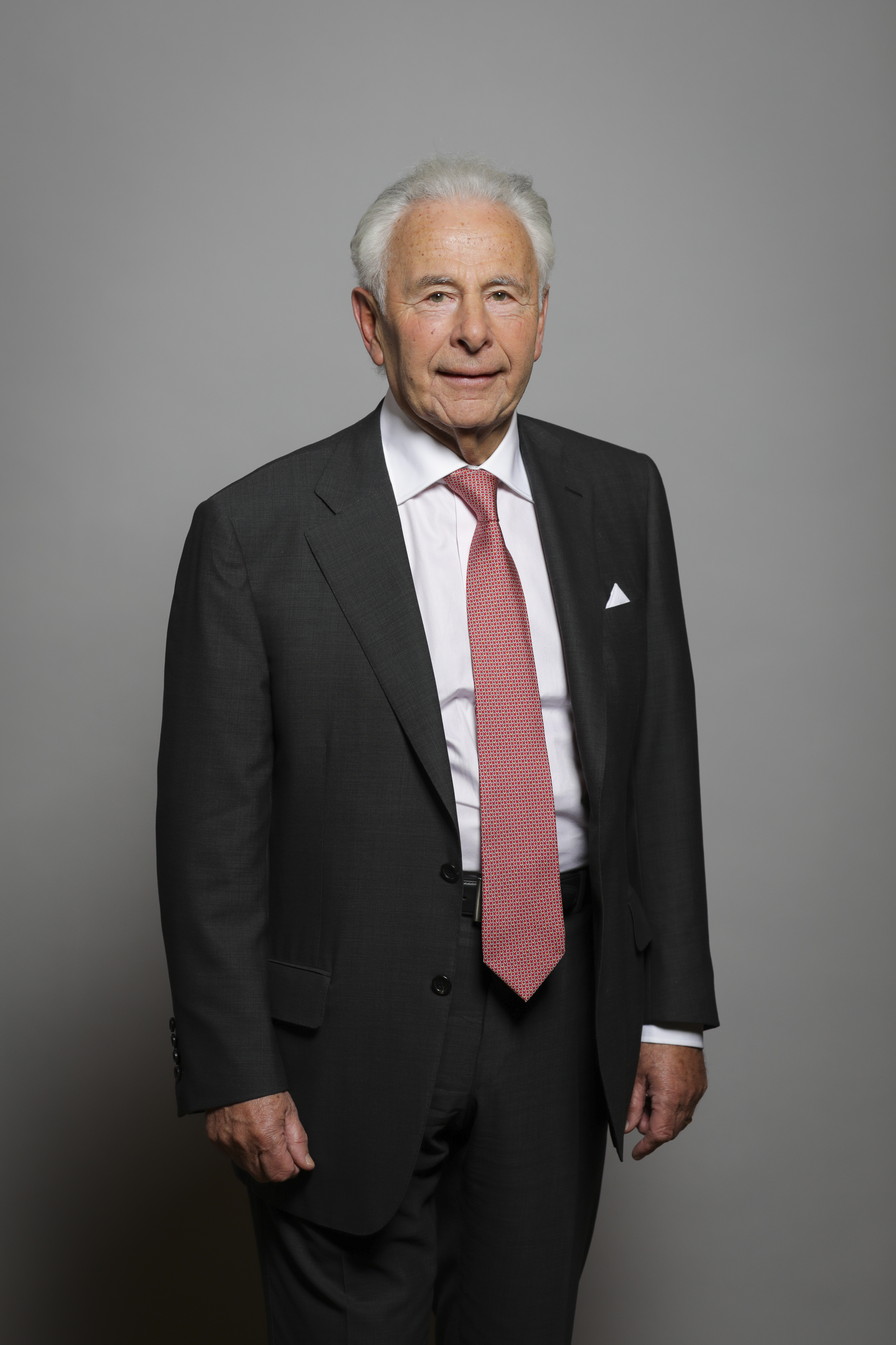 Official portrait of Lord Levy Full sized portrait of Lord Levy